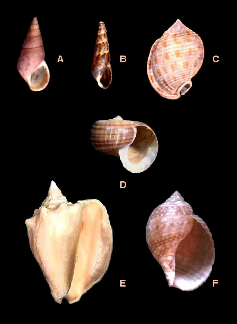 Plate with various shells of gastropods. DIVERSIDAD DE PROSOBRANCHIA